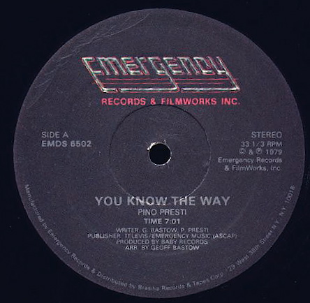 You Know the Way (12" Label)